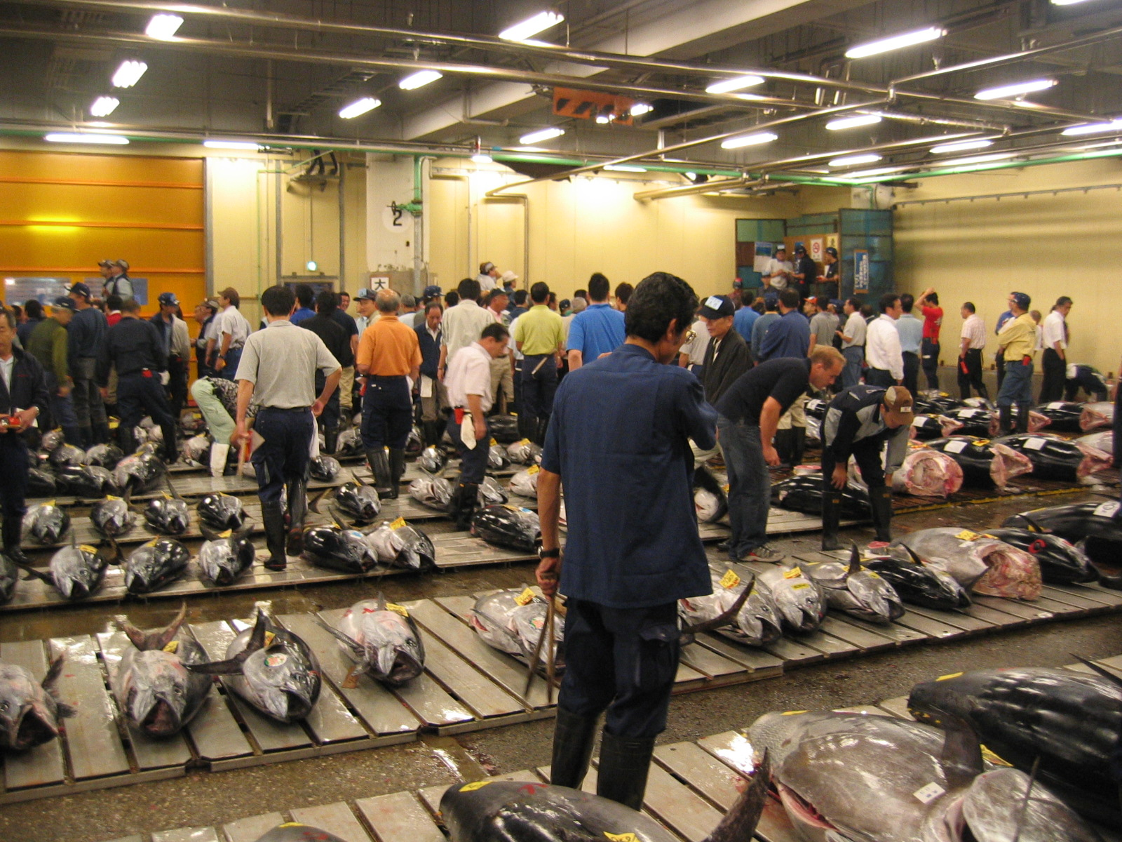 Subject: End of auction of fresh tuna at the Tsukiji fish market. Please notice the tails are cut off, to allow examination of the meat, and the inserted into the gills. Also, various labels applied to the fish. Photographer: Derek Mawhinney. Date: August. 25, 2005. This image is licensed under the Attribution ShareAlike 2.5 License.